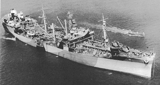 The U.S. Navy fleet oiler USS Salamonie (AO-26).